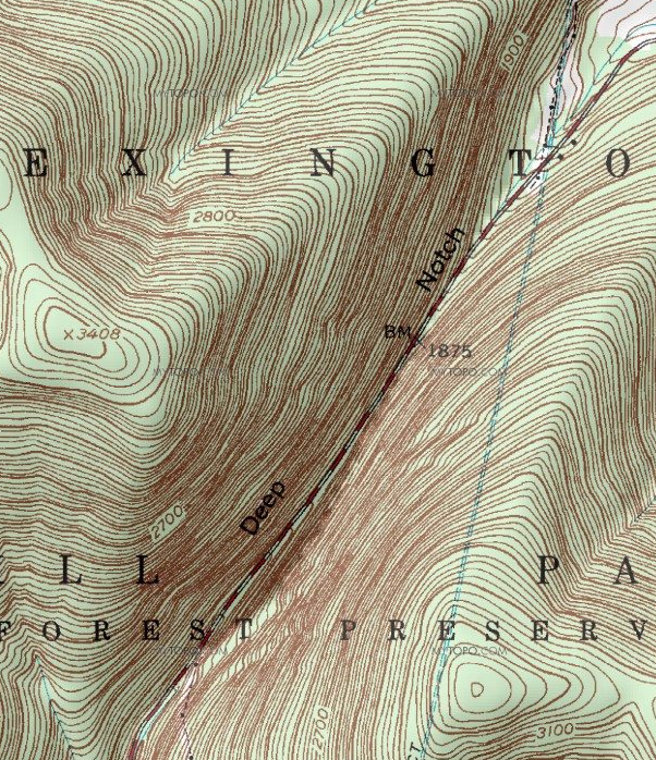 Topographic map of Deep Notch, Lexington, NY, USA